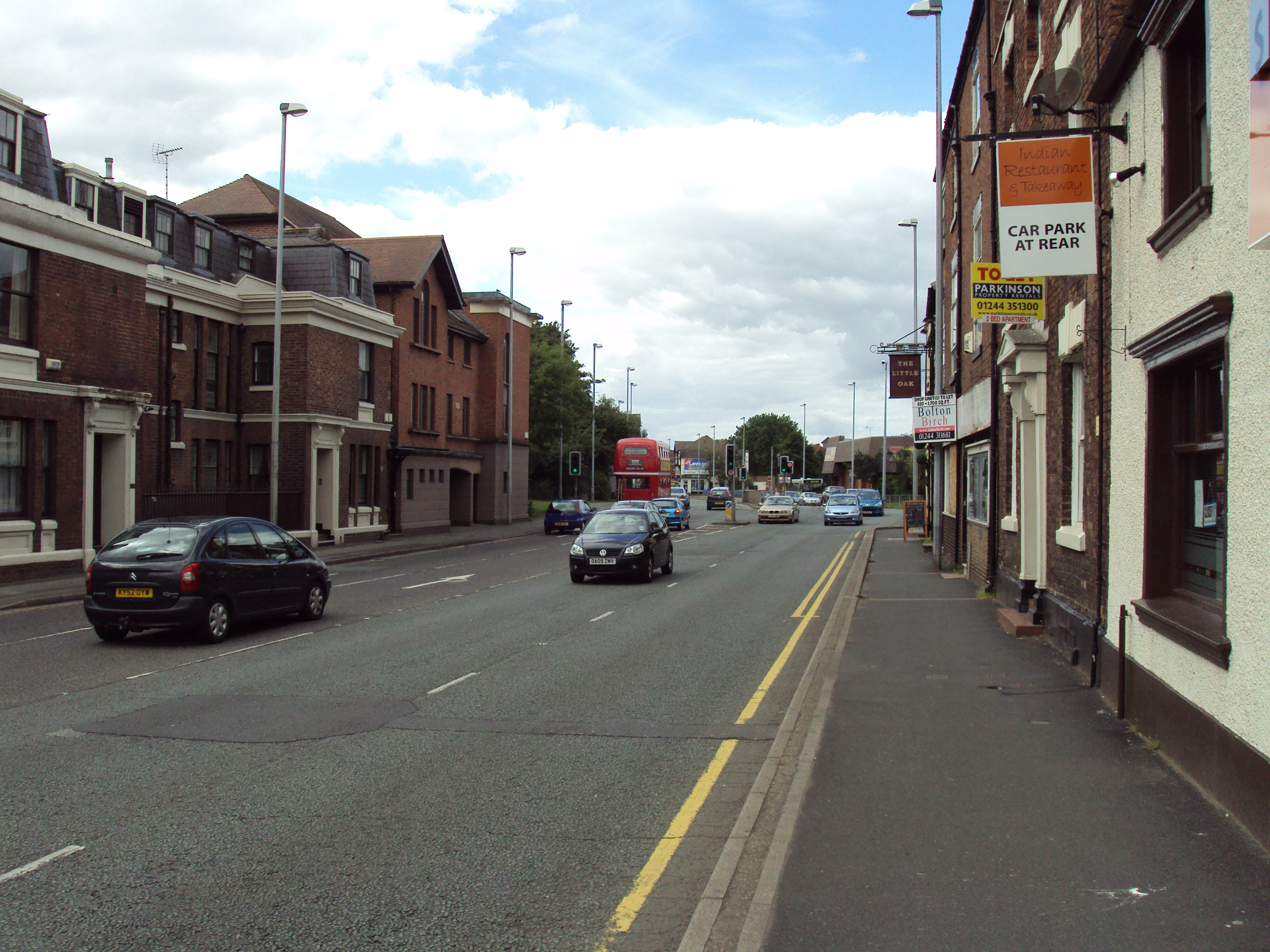 The A51 road passes through Boughton, Chester, England.